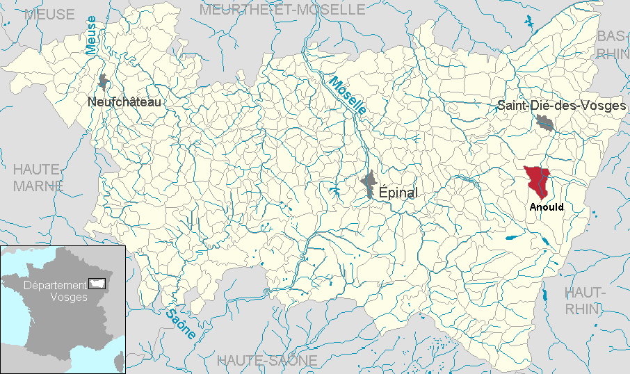 Anould in the department of Vosges, Lorraine, France